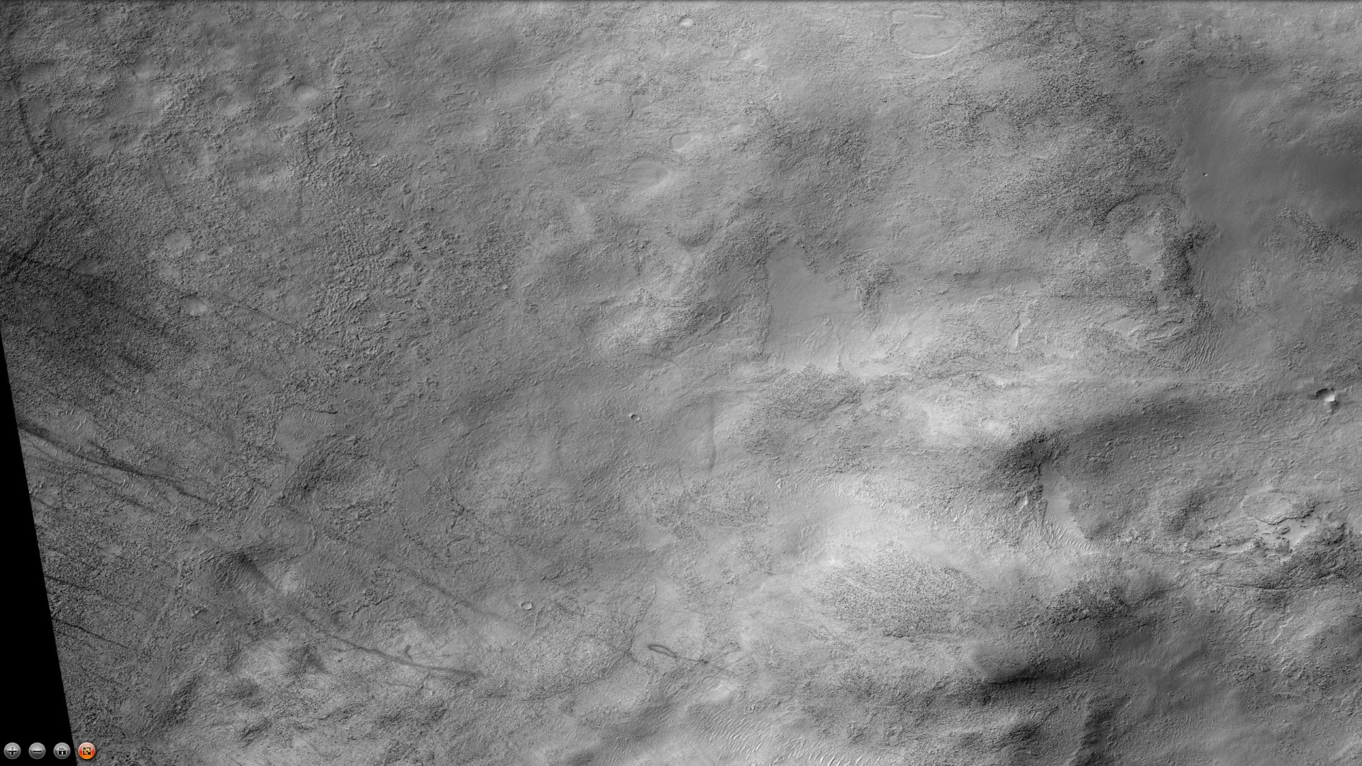 Dust devil tracks in east side of Halley Crater, as seen by ctx